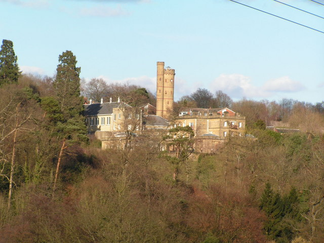 David Salomons house. Michael Faraday did a number of experiments on electricity in this house, who was owned by his friend David Salomon.